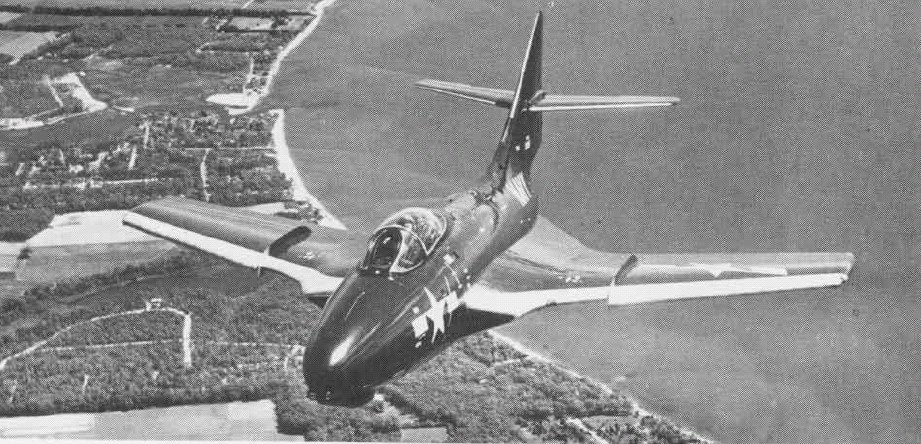 A Grumman F9F-8 Cougar in flight in 1954. The first F9F-8 flew on 18 January 1954, and a total of 601 F9F-8s were delivered to the U.S. Navy between April 1954 and March 1957.